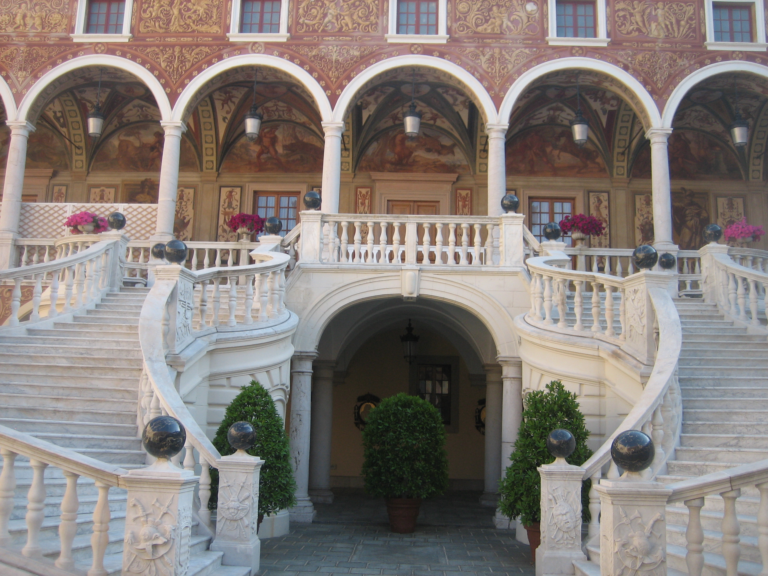 Princely Palace in Monaco, Stairs inner courtyard.